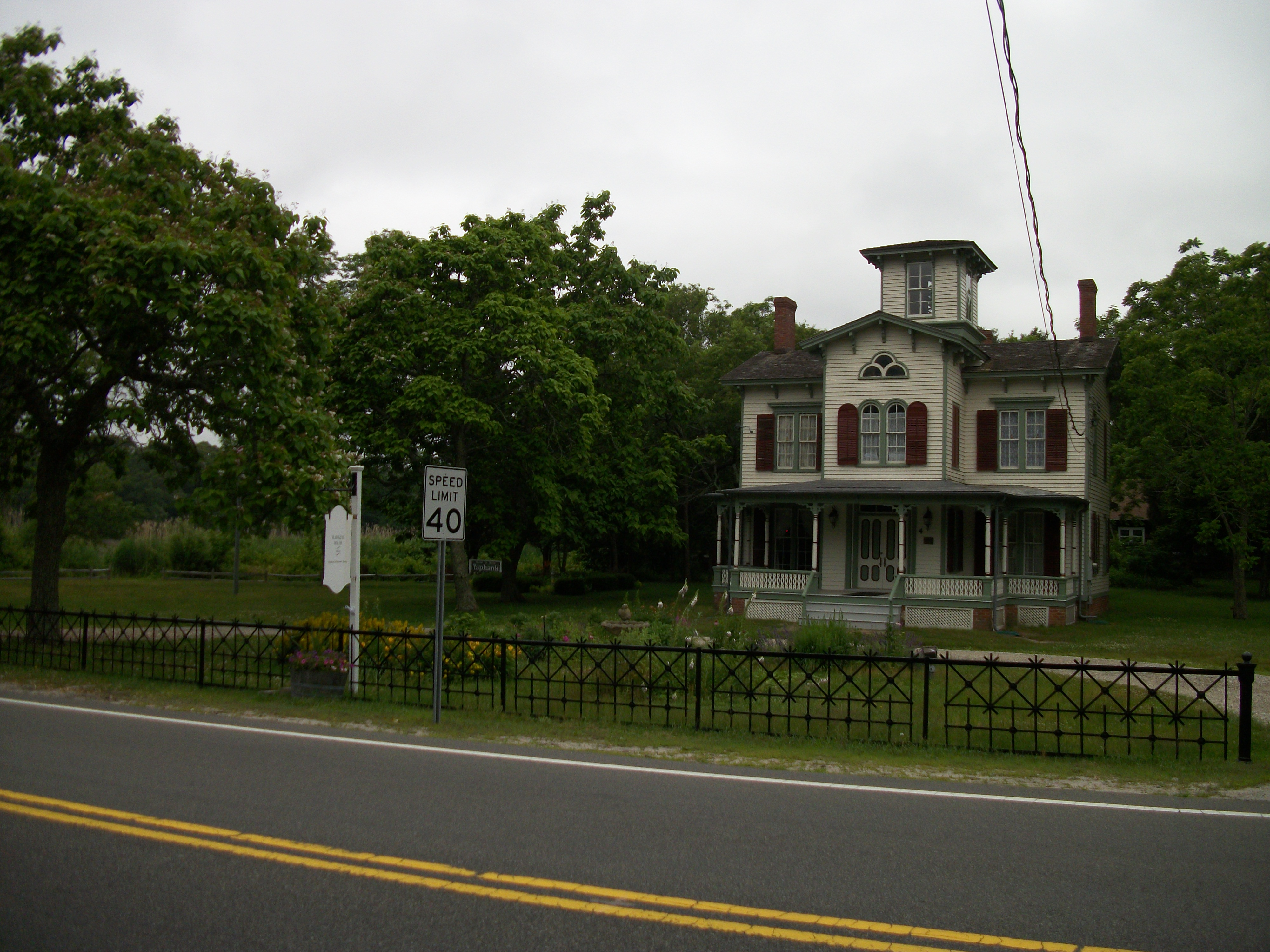 The historic Robert Hawkins Homestead on Yaphank Avenue in Yaphank, New York.